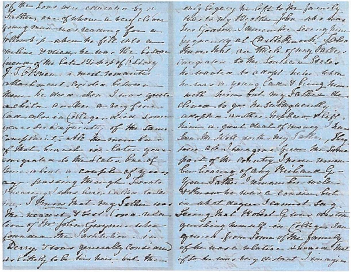 Part of a letter written by Mrs Ellen Green (in Canada) to her cousin John Gwynn (in Dublin), c. 1881.